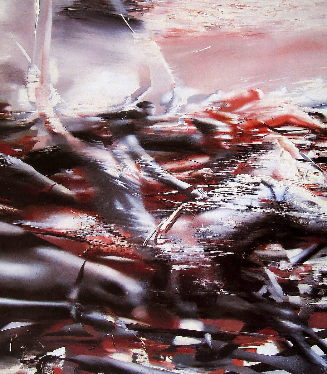 Memoirs of the Revolution 1987